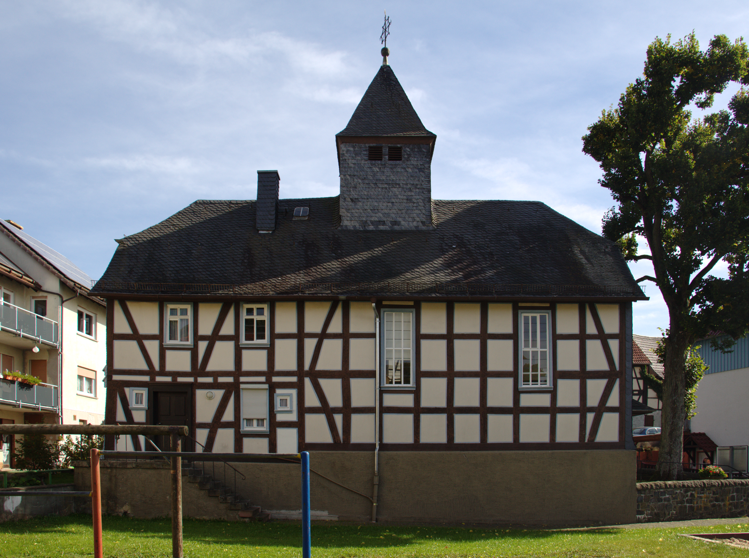 Protestant church (former cemetery chapel Schotten - moved 1827) in Schotten, Goetzen, Hesse, Germany